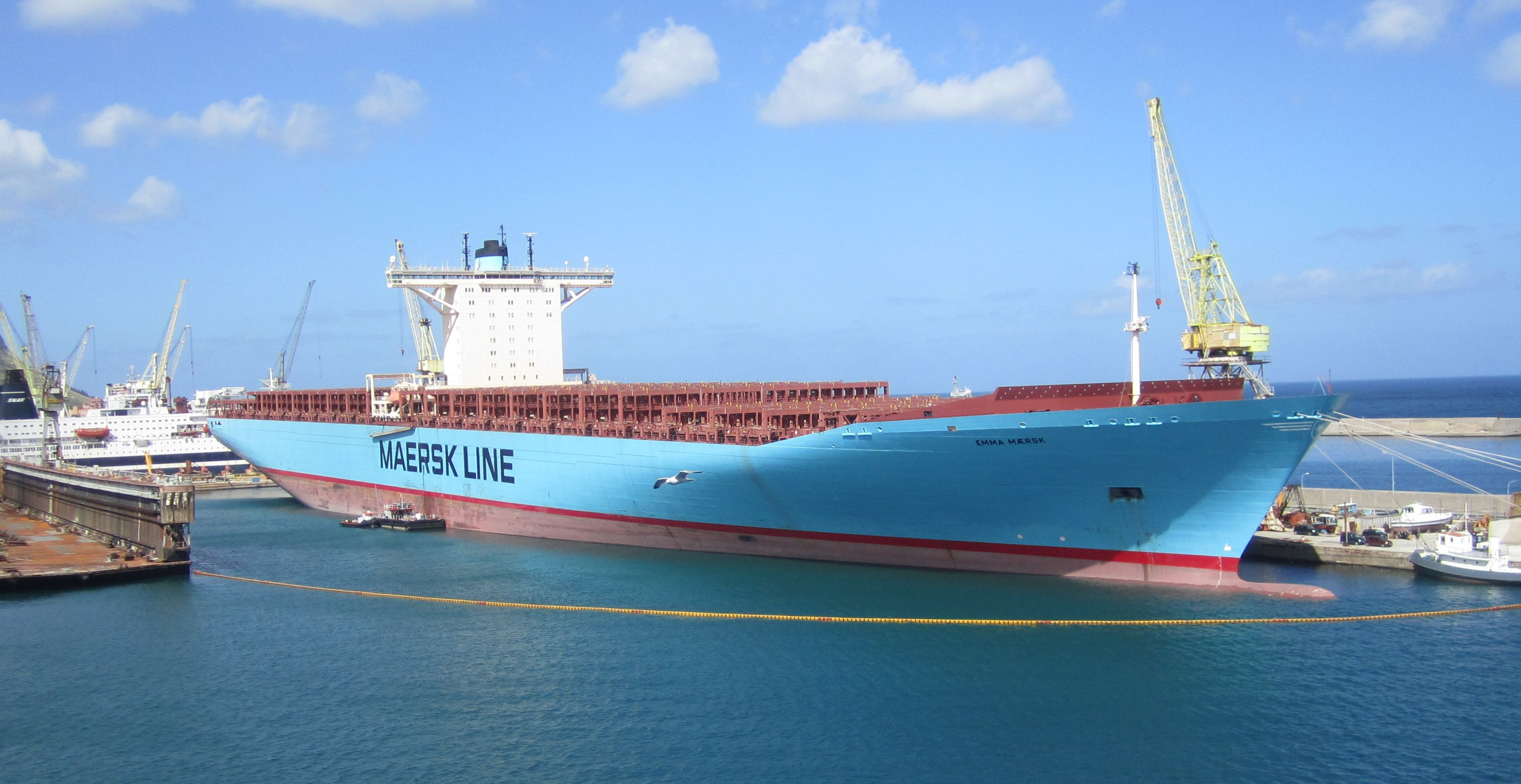 Emma Maersk in Palermo